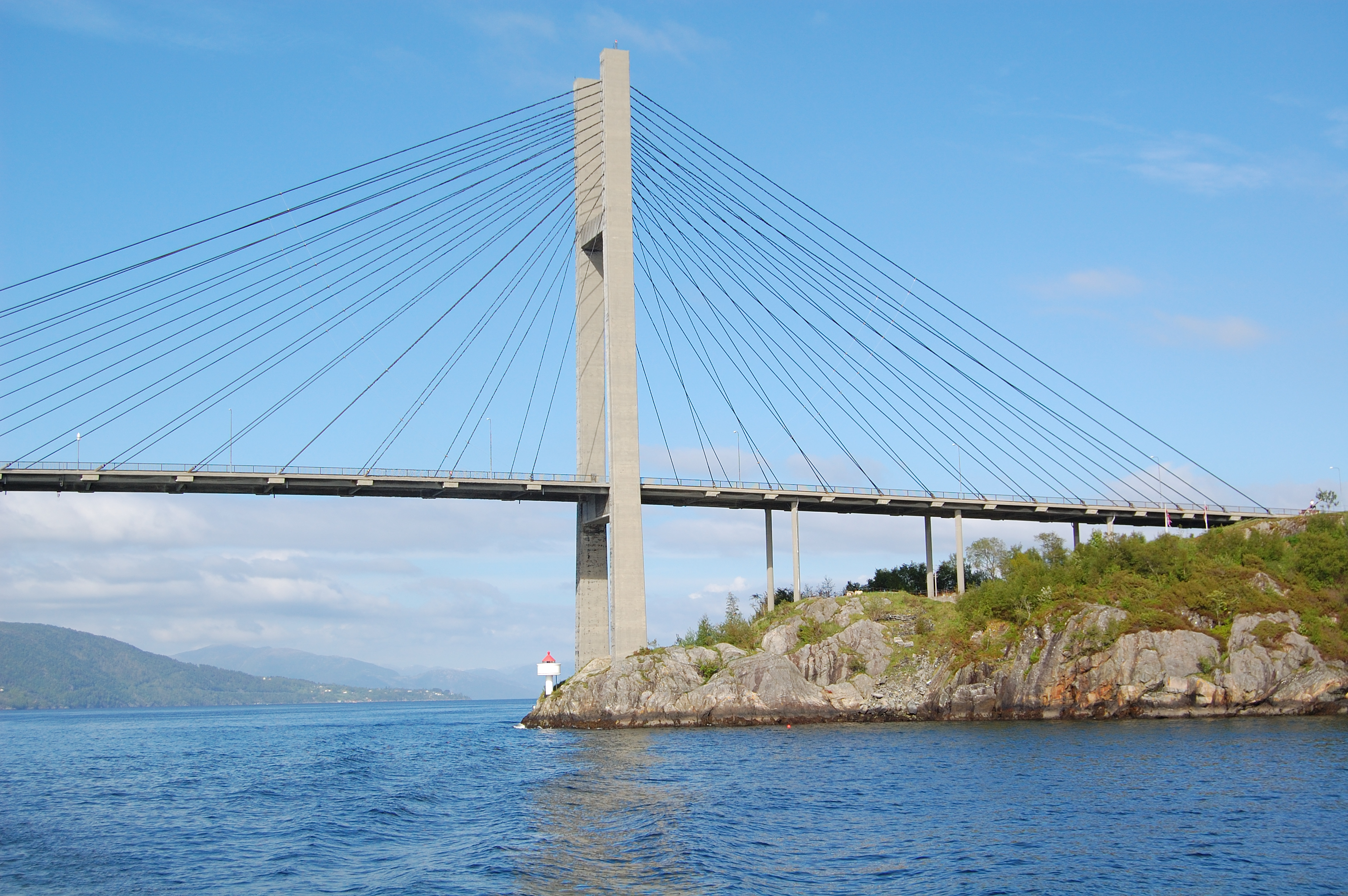 Nordhordland Bridge in Hordaland, Norway.